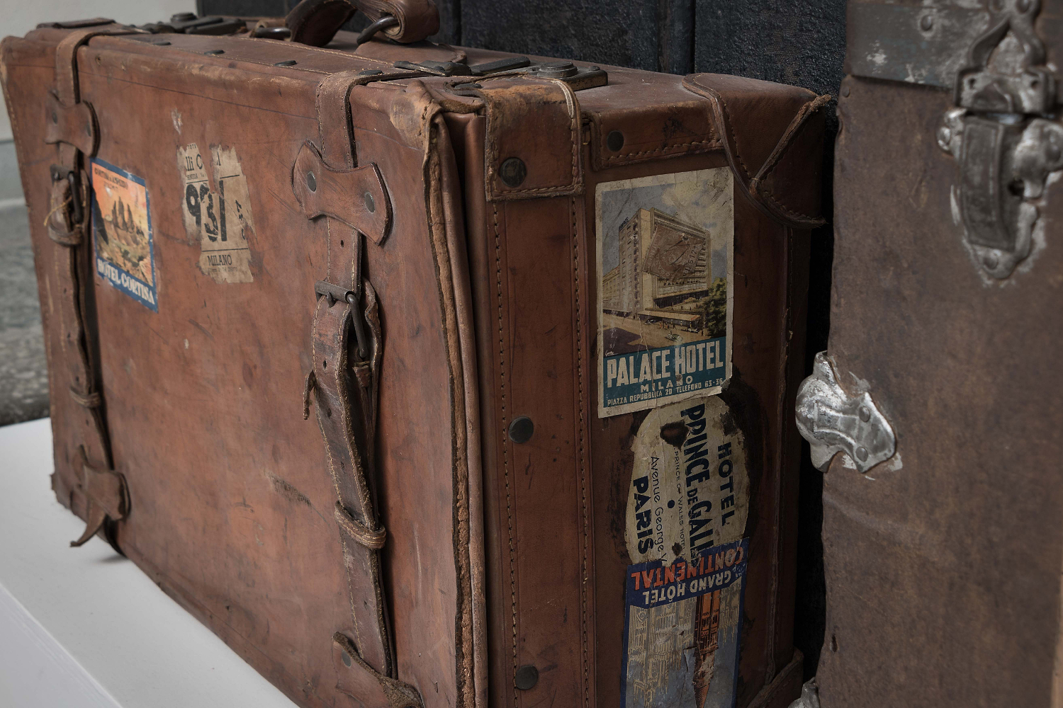 luggage with reference to the italian emigration